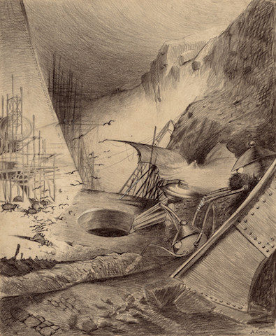 This drawing was made by henrique alvim correa showing dead martians in the end of the war of the worlds